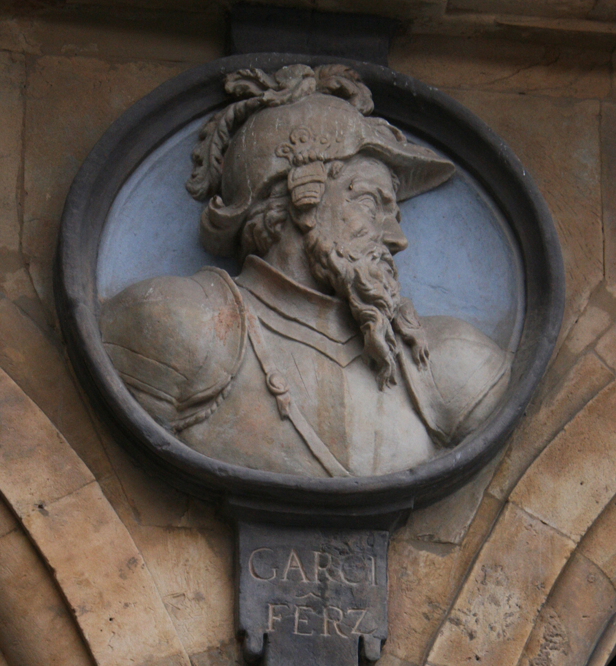 Medaillon gravure Count of Castela, Garcia Fernandez - Plaza Mayor, Salamanca, Spain.